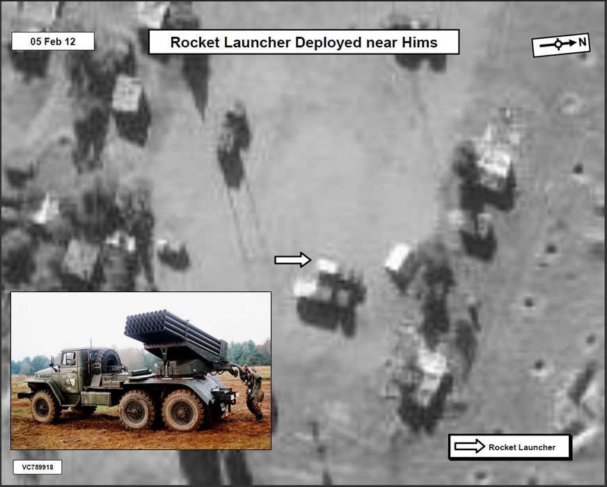 Rocket Launcher Deployed near Homs, Syria on February 5, 2012. Graphic 8 de 9 2011–2012 Syrian uprising.